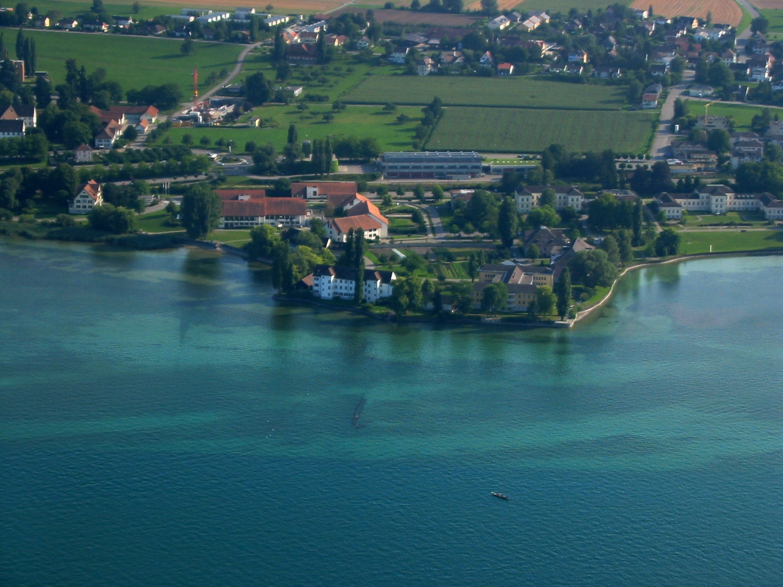 Switzerland, Thurgau, impressions of a flight with airship D-LZZR